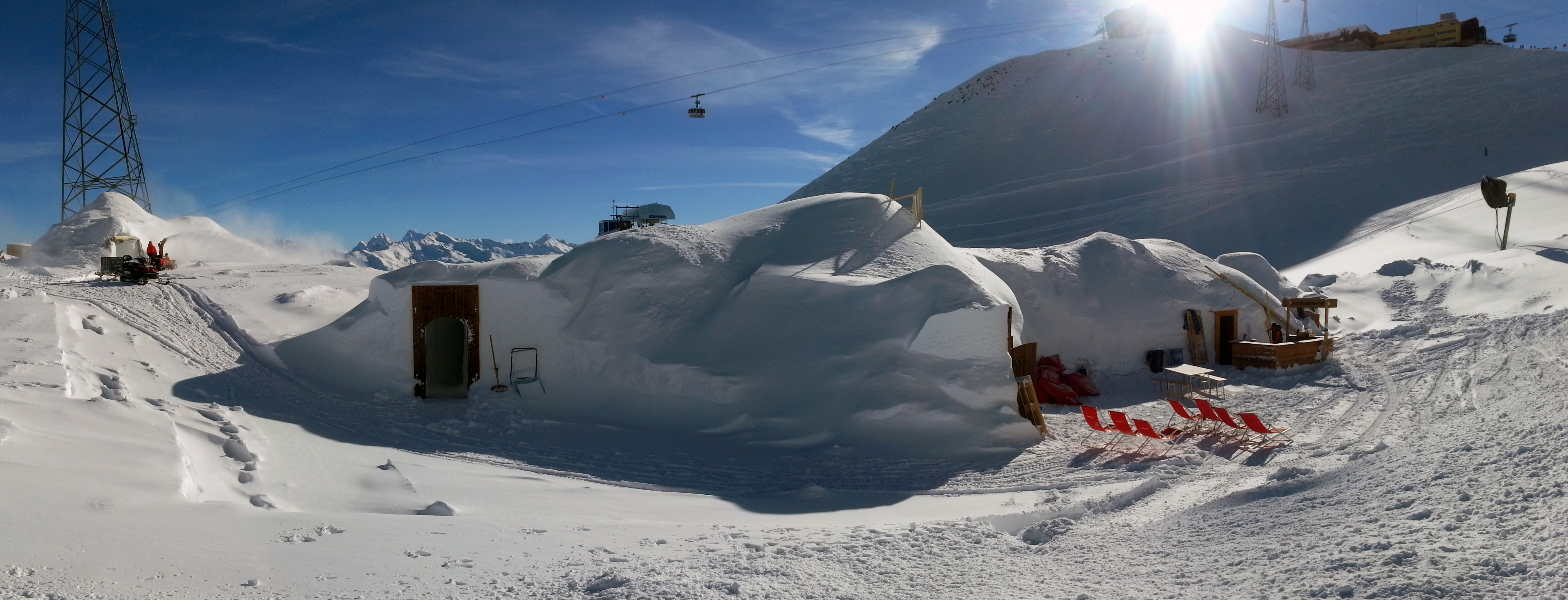 Igloo-village near Weissfluhjoch,Davos, Klosters-Serneus, Grison, Switzerland